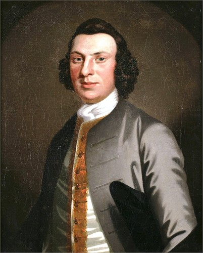 Frederick Philipse III, last lord of Philipsburg Manor. He died in 1785.